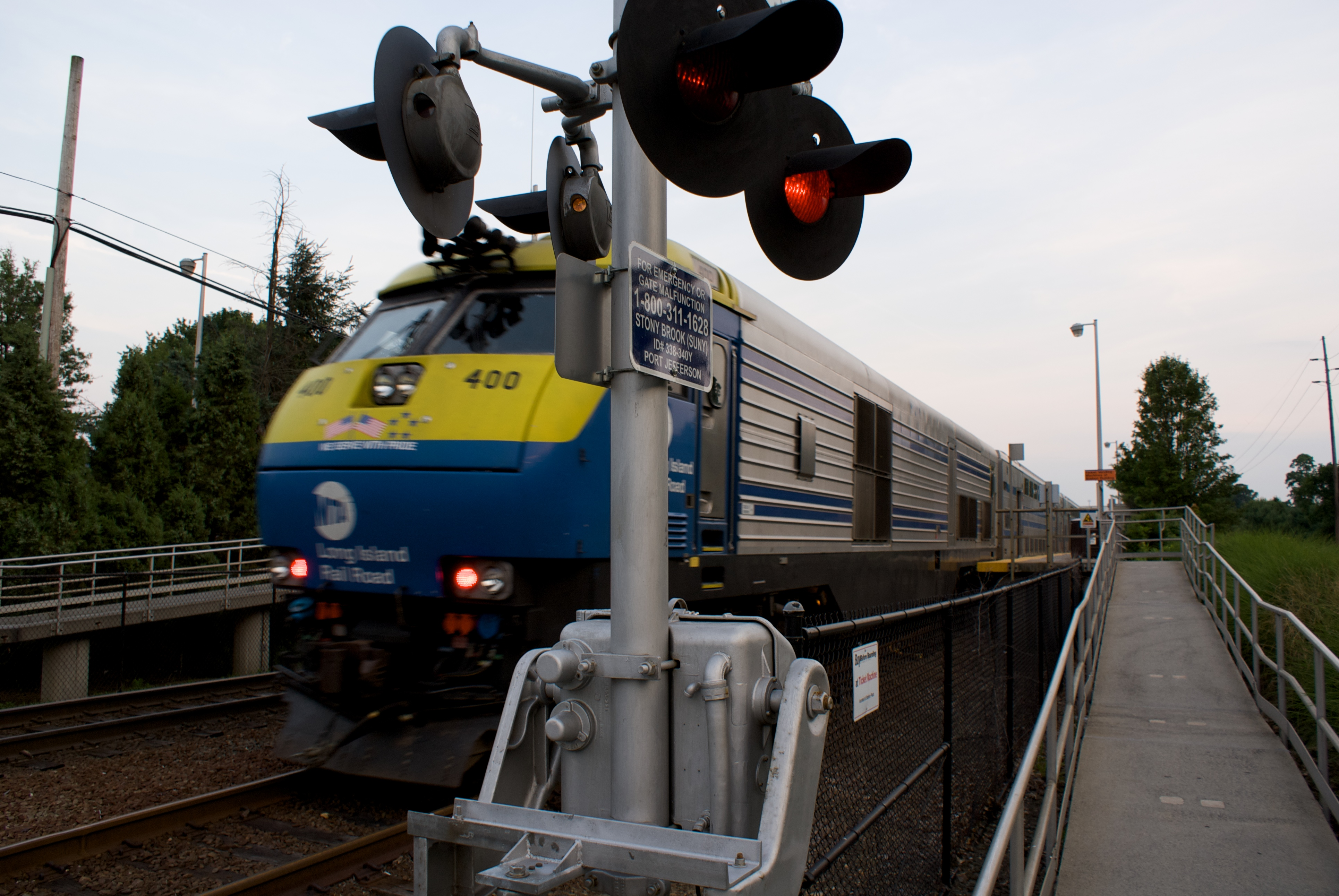 Westbound locomotive entering Stony Brook LIRR station.